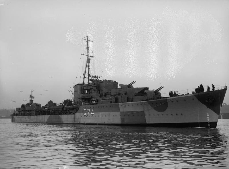 British destroyer HMS LEGION at anchor.